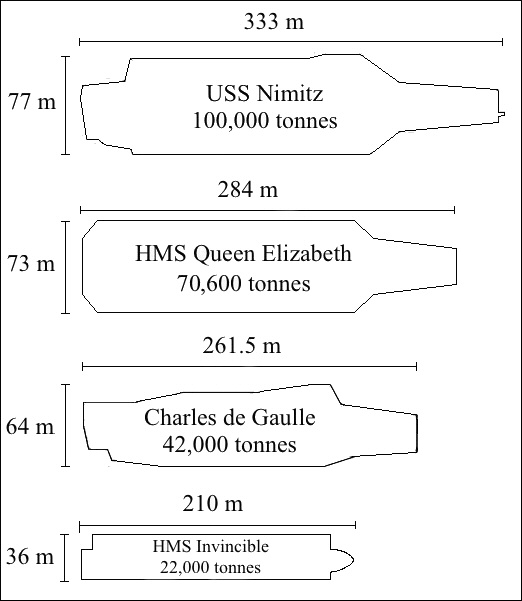 A deck area comparison of the aircraft carriers USS Nimitz, HMS Queen Elizabeth, Charles de Gaulle (R91) and HMS Invincible